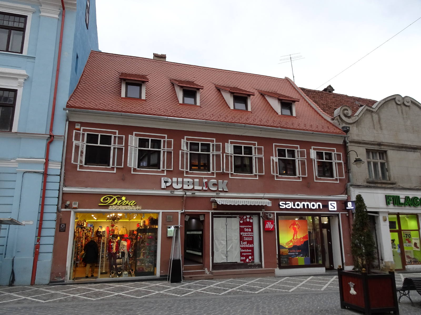 House on Republicii street, Brașov